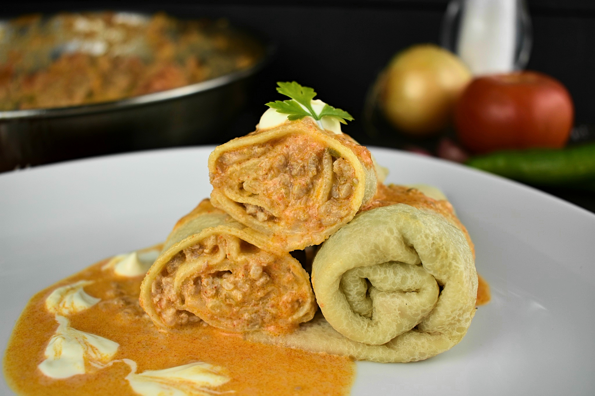 Hungarian-stuffed-crepes-hortobagy-crepes